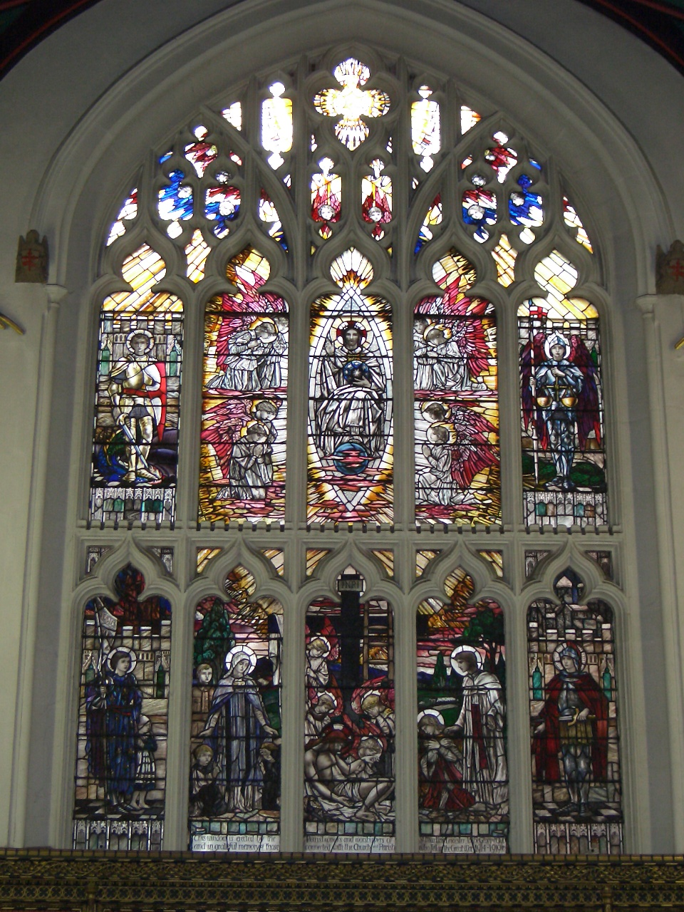 my photo of WW1 window at Leicester cathedral